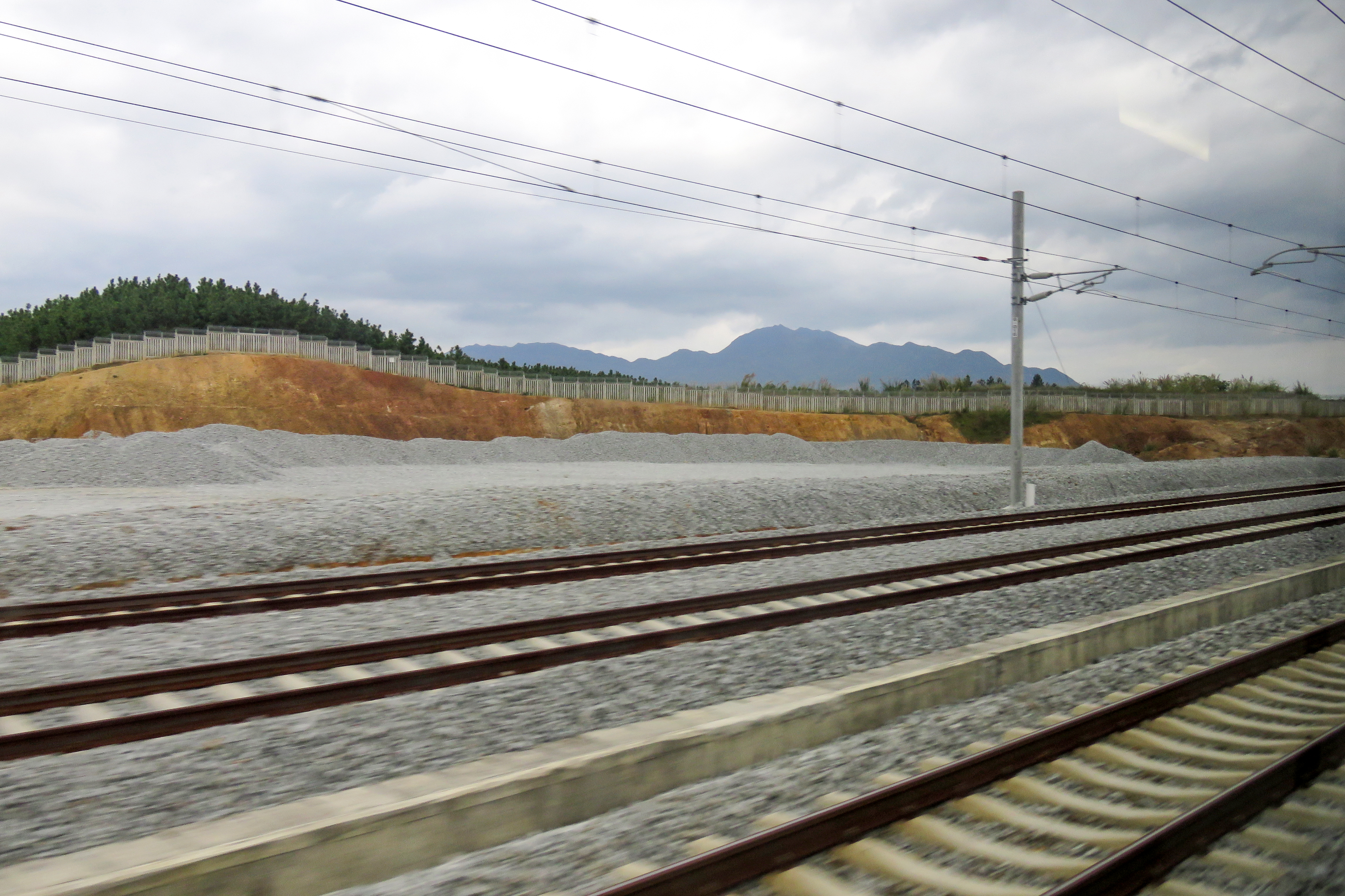 Currently no buildings?